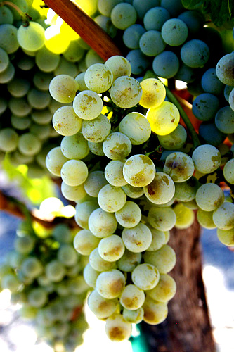 From Author: The Semillon blanc grapes get brown smudges on as they turn.